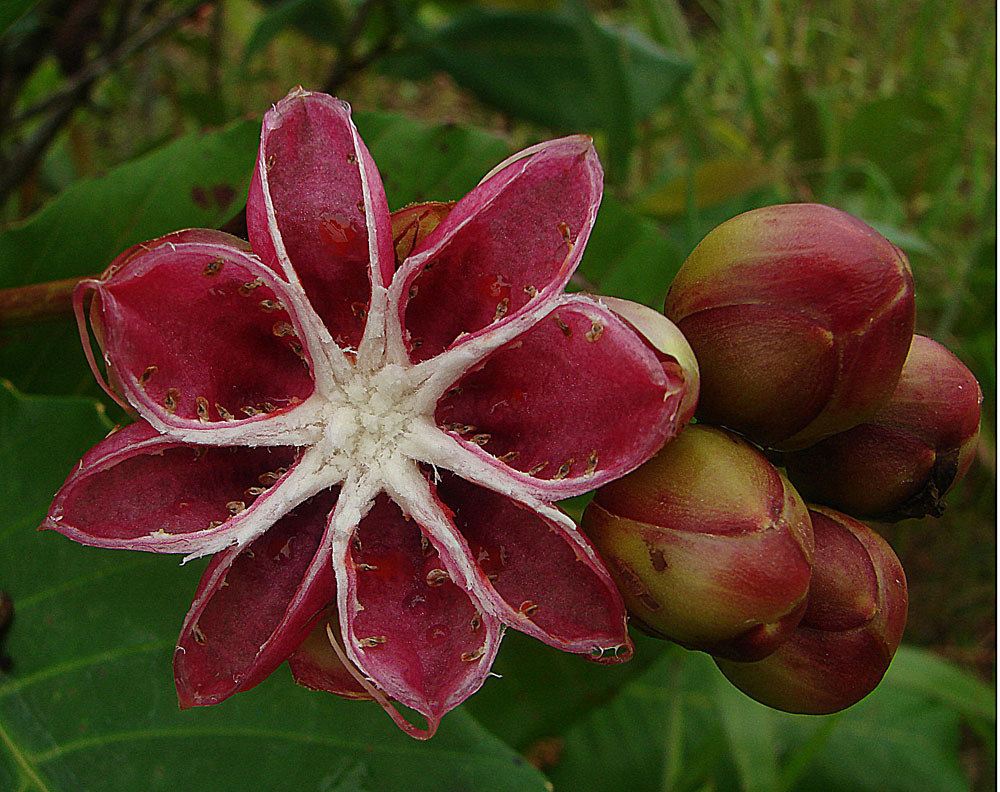 The fruit of Shrubby Dillenia abruptly opens to release its seeds. In it native Malaysia, Sumatra and Borneo, it is known as Simpoh Air and used as a hairwash.